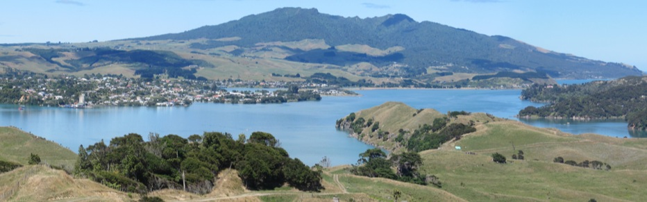 viewed from Patikirau